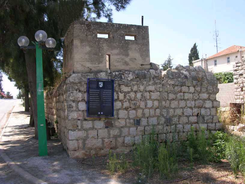 defensive position in Metula: These are located along both sides of the main road, and were part of the settlement's perimeter defence network during the 1936-39 riots. Building were made of cement, with rectangular slits. The positions were manned by militia and the men of Metullah, and remained in use up until the War of Independence.